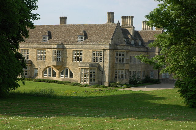 Besford Court. The original timbered-framed Besford Court was built around 1500,see 799027. Pictured here is the large stonebuilt extension which was added in 1912. For many years this was a Catholic school for special needs pupils until it was closed in 1996, since then it has been converted into luxury apartments.